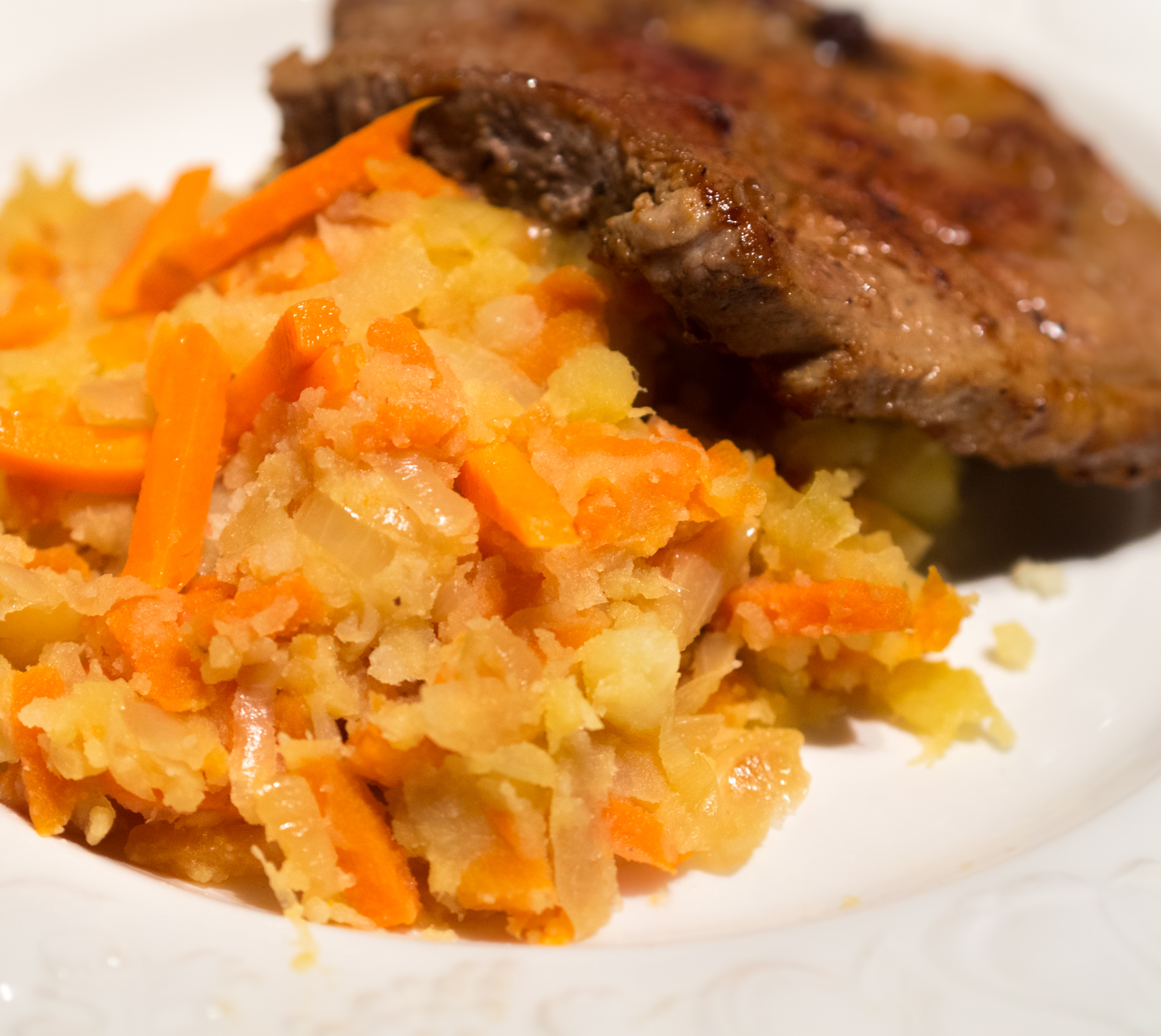 Hutspot, a traditional meal in the Netherlands, is a mash of potatoes, onion, and carrot, which have first been boiled together. Here it is served with ribkarbonade, a pork rib chop which has been fried in butter, pepper and salt. The resultant gravy is also served. I'll try again next time to photograph this dish in a more appealing way but it's not easy....